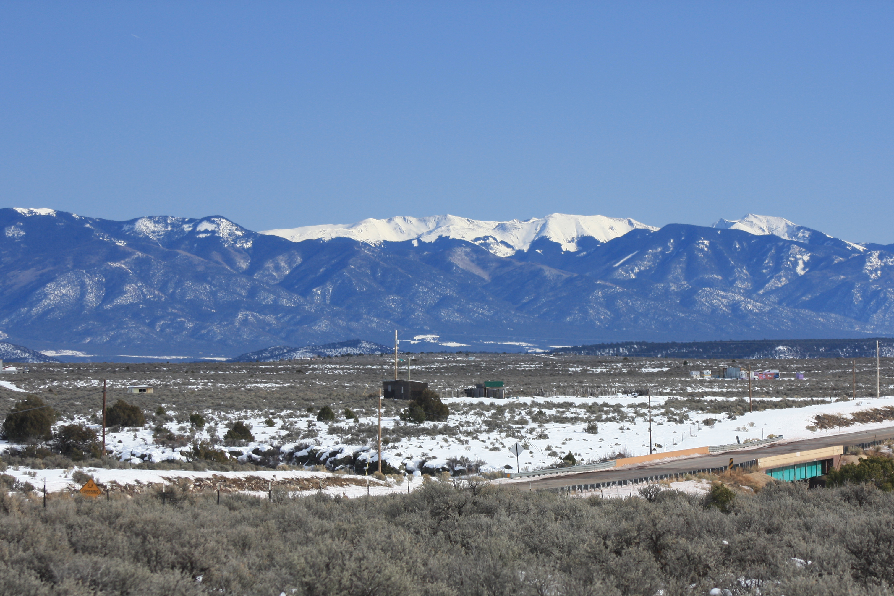 Wheeler Peak, New Mexico's highest peak, taken from the intersection of U.S. Highways 64 and 285 in Tres Piedras.